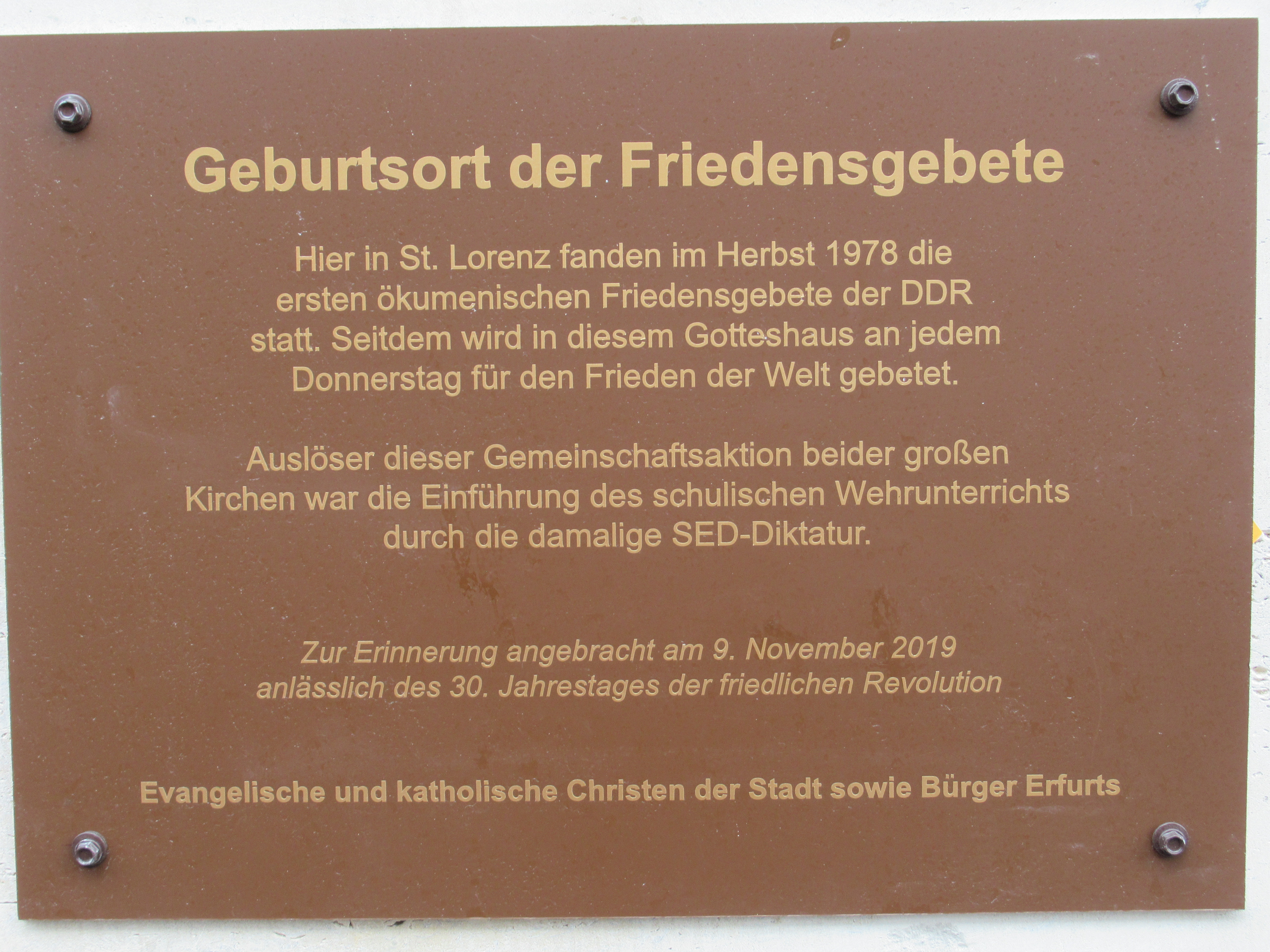 Erfurt Lorenzkirche Memorial to Start of Friedensgebete 1978